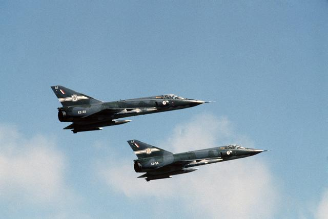 Two Dassault Mirage III aircraft of No. 77 Squadron, Royal Australian Air Force (RAAF), taking off on a mission during the joint Australian, New Zealand and US (ANZUS) Exercise TRIAD '84.